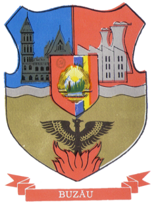 Communist coat of arms of Buzău municipality, Buzău County, Socialist Republic of Romania.